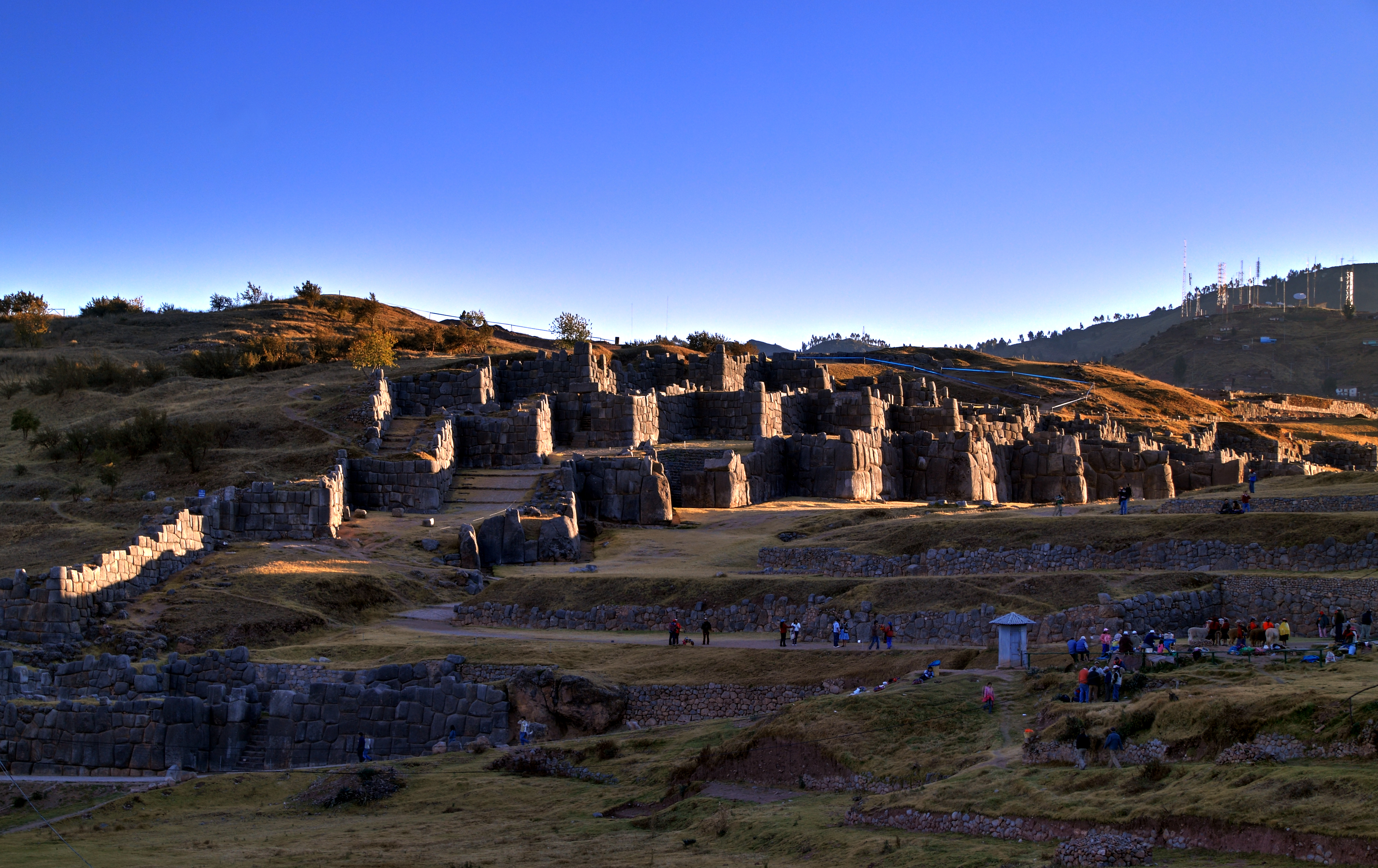 Please, have this description accessible to all by translating it in different languages.